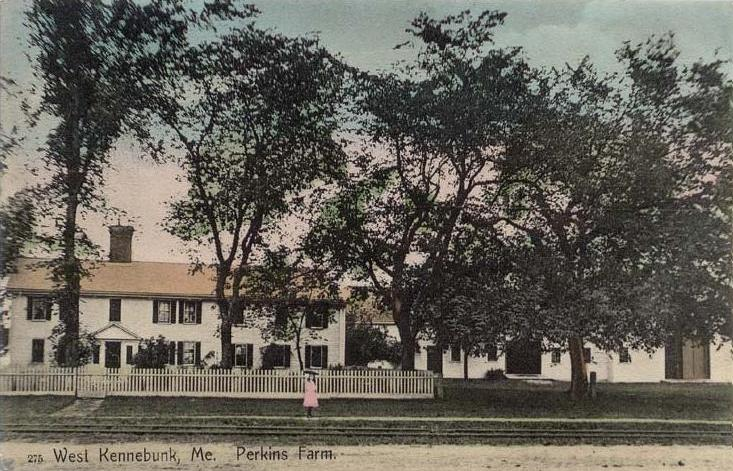 View of the Perkins Farm, West Kennebunk, Maine